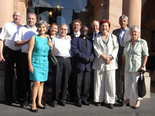 africa action / Deutschland, meeting of Bishop Ambroise (Maradi, Niger), Heidemarie Wieczorek-Zeul (patron), members of the board, members, in front of the state parliament of Hesse, Wiesbaden